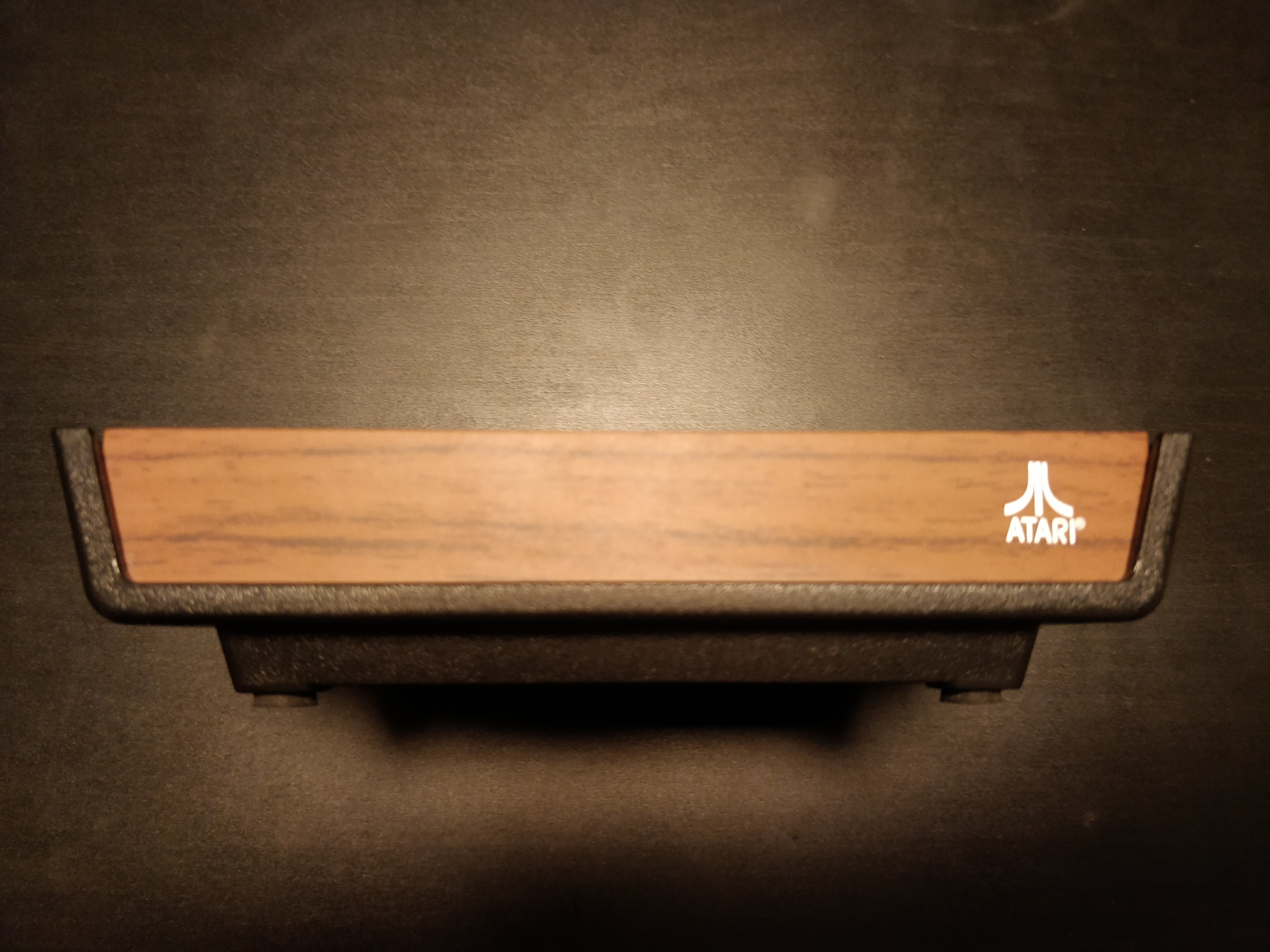 Atari Flashback X Deluxe video game console